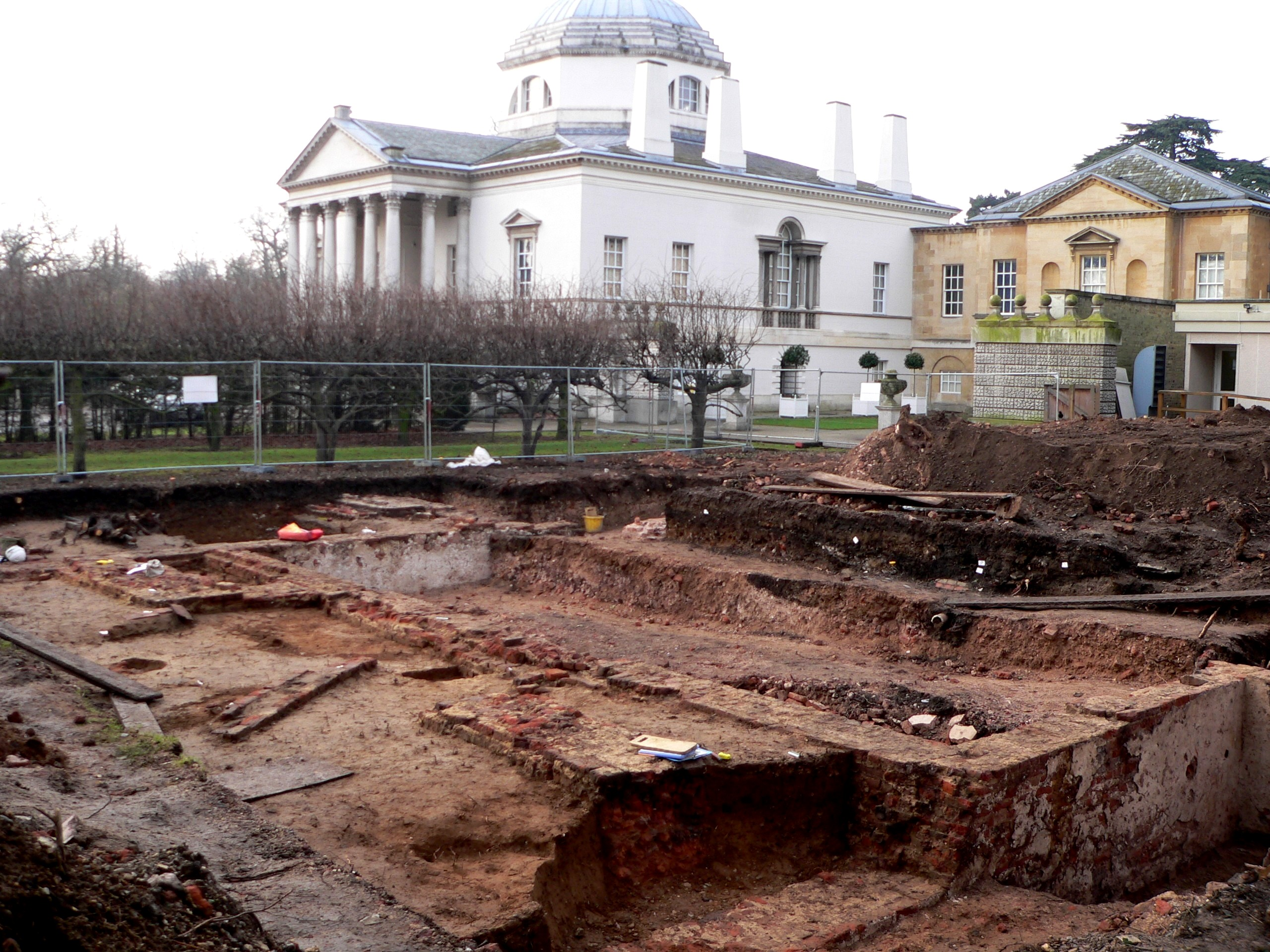 English Heritage archeologists uncover the sustantial remains of the old Jacobean House